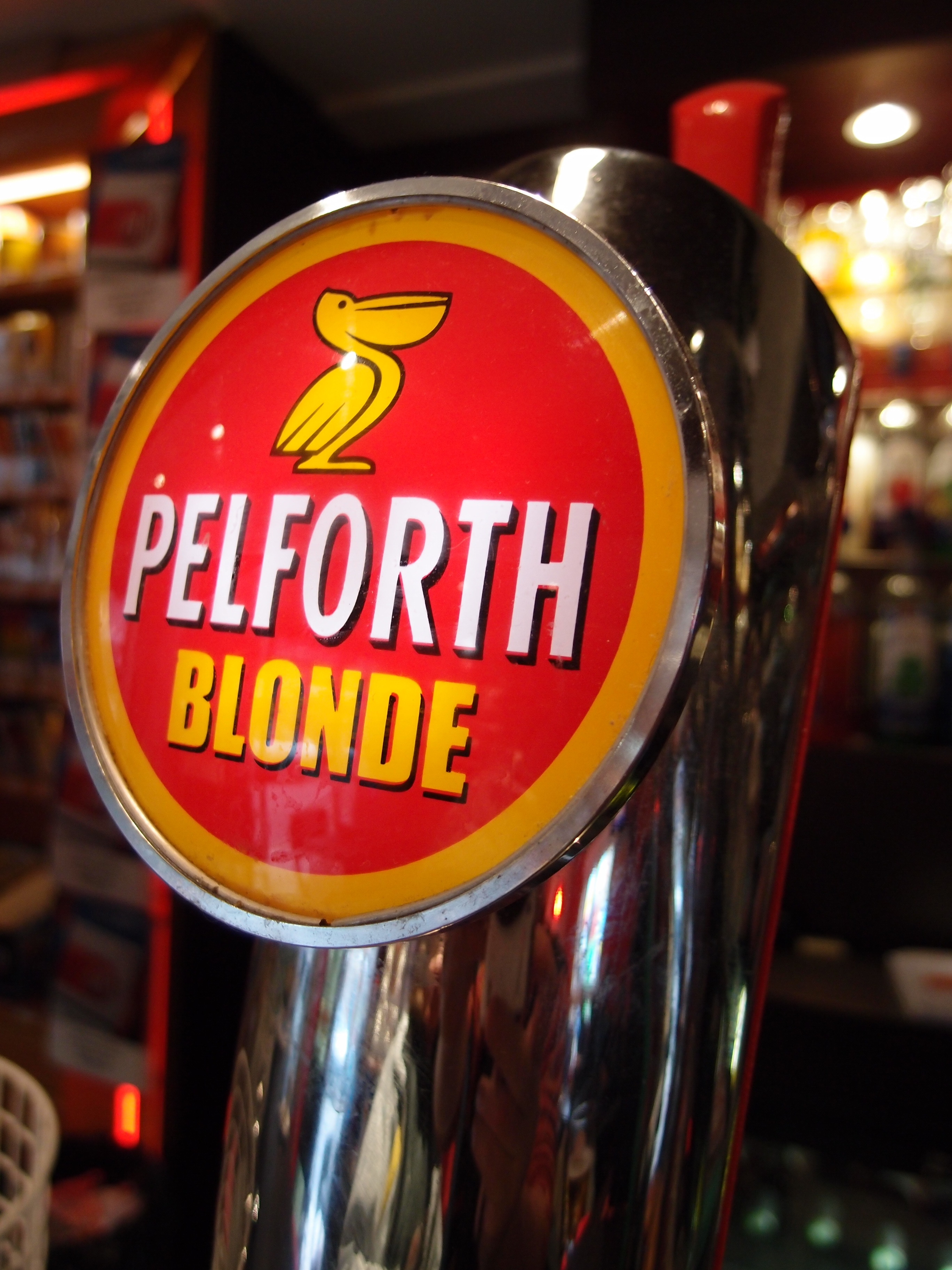 Bier-Zapfhahn "Pelforth (Blonde)" - (franz. Brauerei/Biermarke aus der Heineken-Gruppe) Datum: 17.05.2012 Urheber: M. Pfeiffer alias Benutzer:Gordito1869 Quelle: privates Fotoarchiv des Urhebers